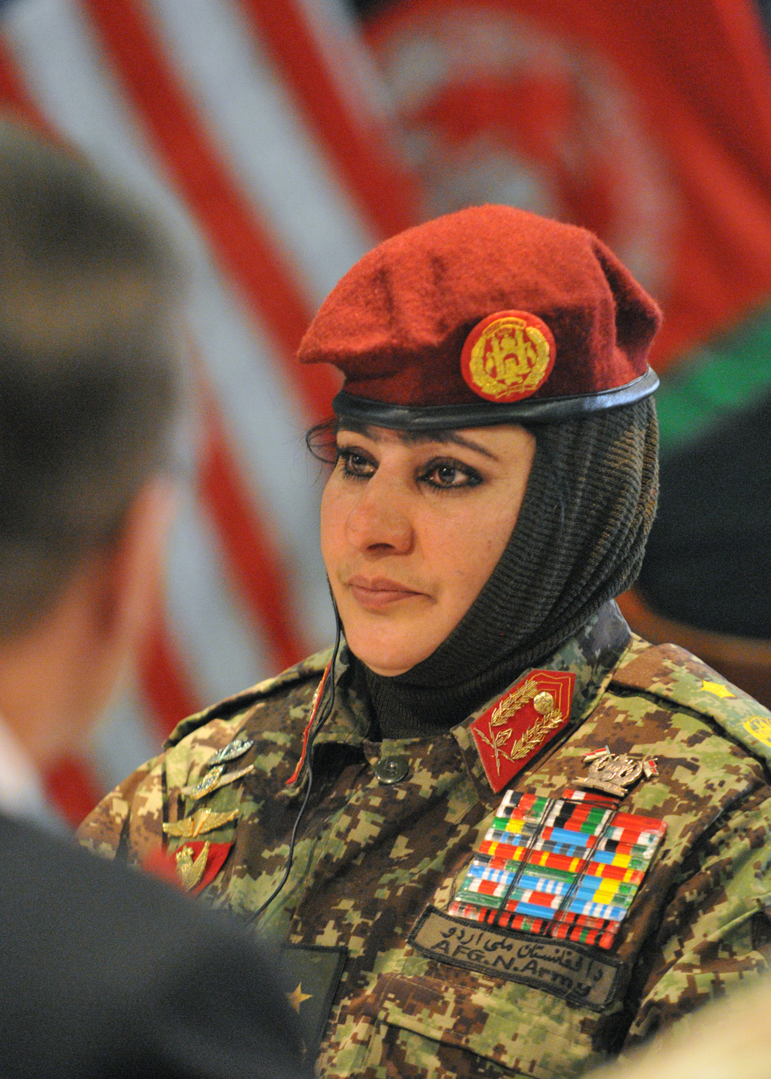 Afghan National Army Brig. Gen. Khatool Mohammadzai attended the Gender Integration Luncheon at ISAF Headquarters, Feb. 25. The attendees, which included ambassadors, representatives from the United Nations, non-governmental agencies and Afghan ministries, discussed the many strides made in women-related issues in Afghanistan and the Afghan National Security Force.